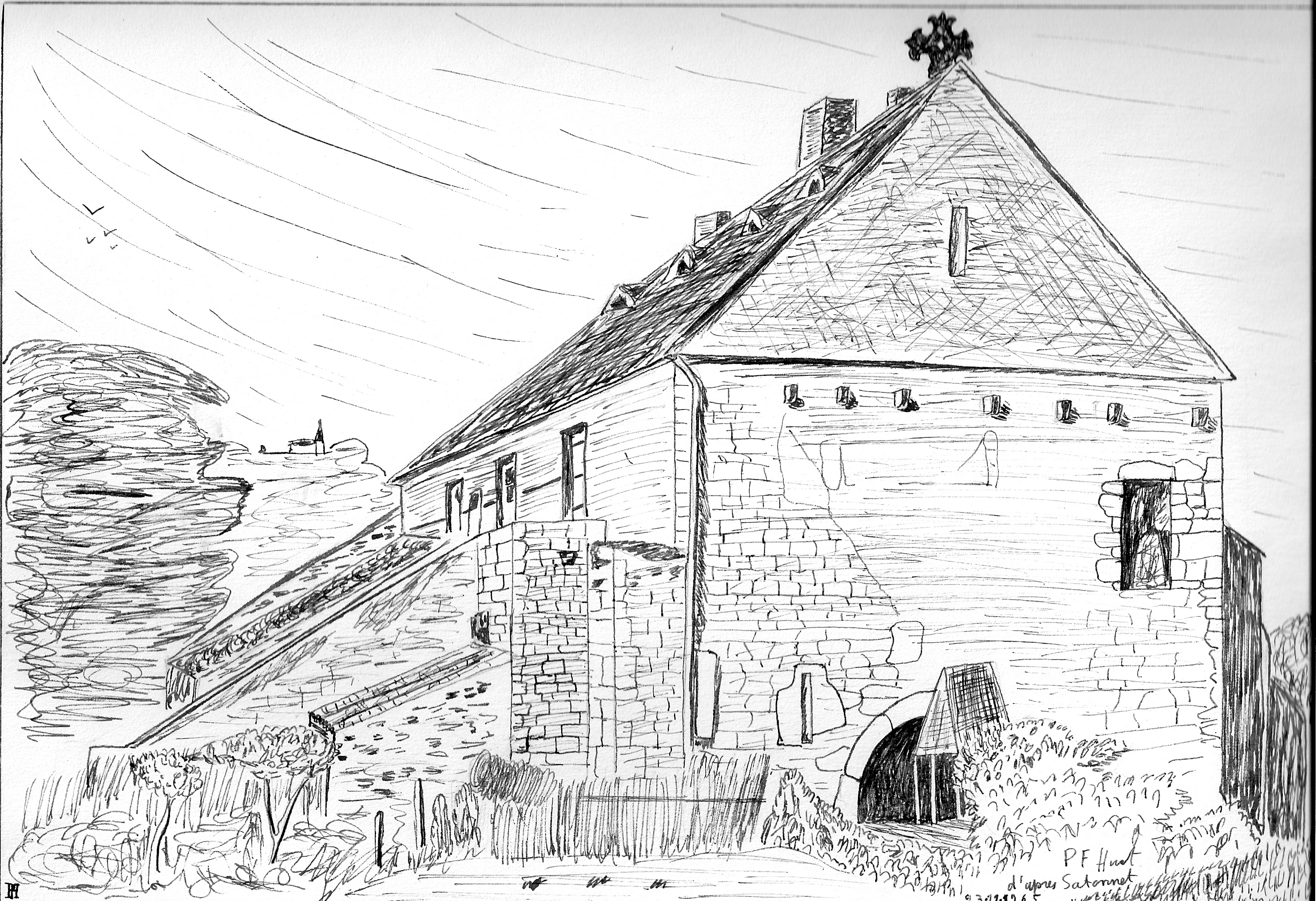 Montferrand